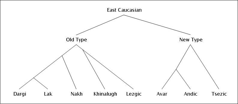 Classification of Northeast Caucasian languages according to Wolfgang Schulze (2009). Reference: SCHULZE, Wolfgang (31 1 2009), "The Languages of the Caucasus"